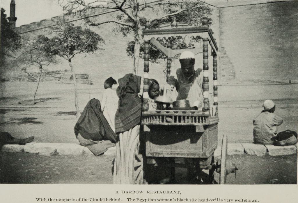 A man is selling some food from a cart to a veiled woman. Black-and-white photograph.